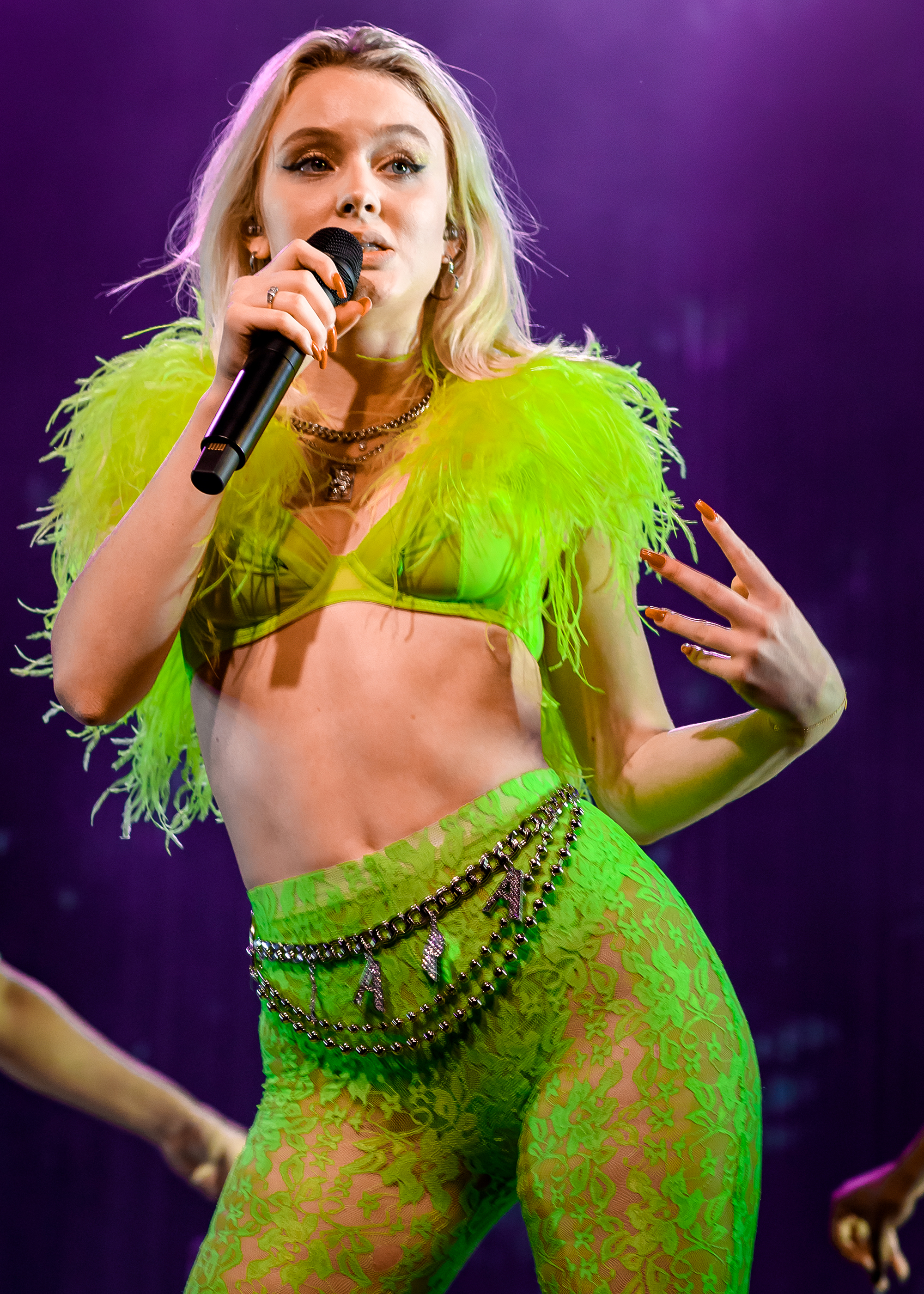 Zara Larsson performing live at The Observatory OC in Santa Ana, Orange County, California, on Thursday, May 2, 2019. Shot for PassTheAux.